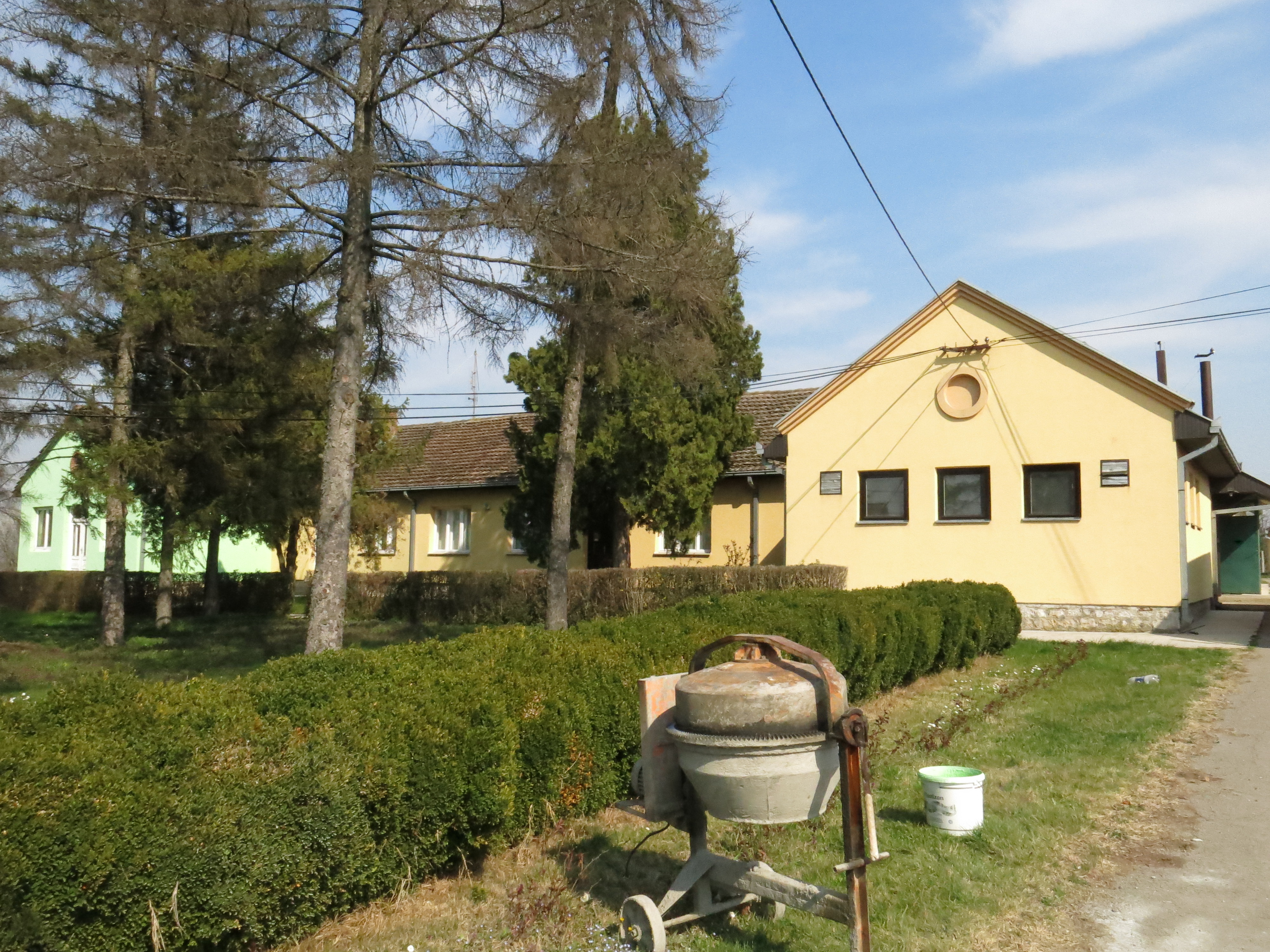 Riđake, Local office building